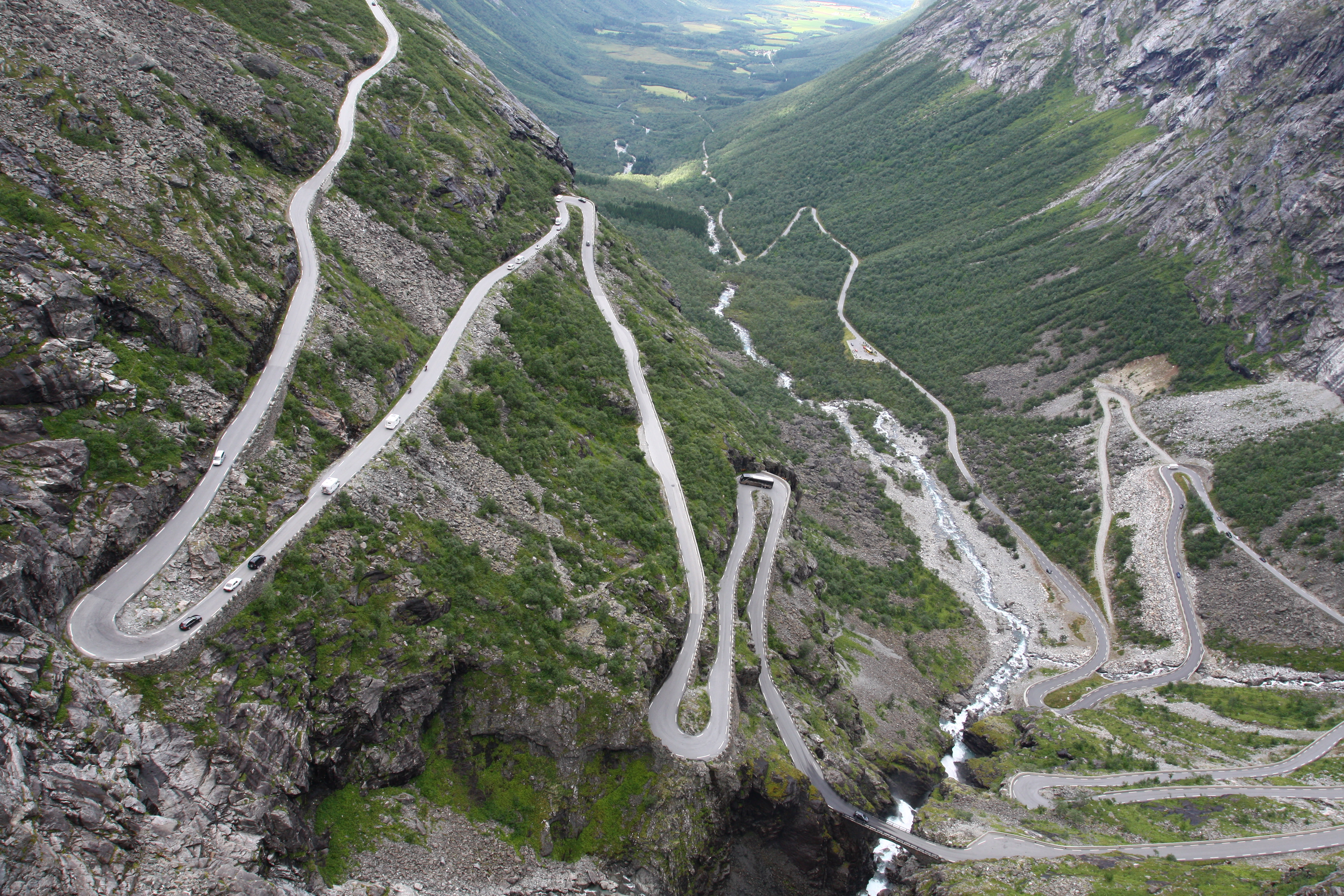 Trollstigen road